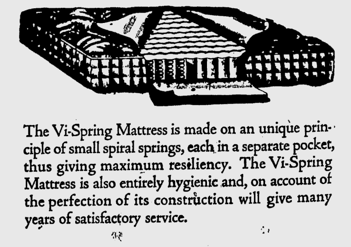 Sydney Morning Harold VI-Spring ad